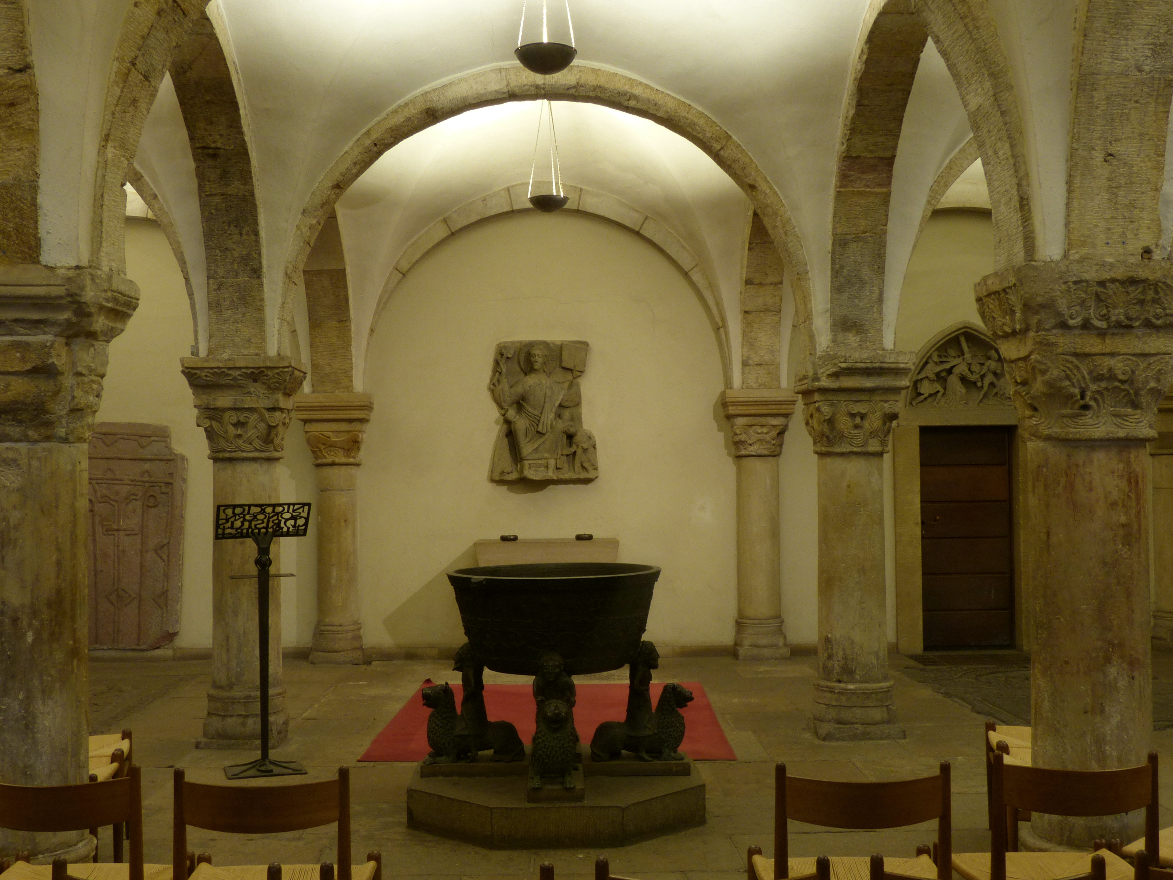 Western crypt of Bremen Cathedral with the baptismal bin and the mid 11th century relief of ruling Jesus Christ